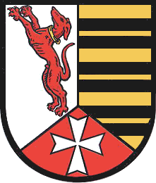 Coat of Arms of Wangenheim